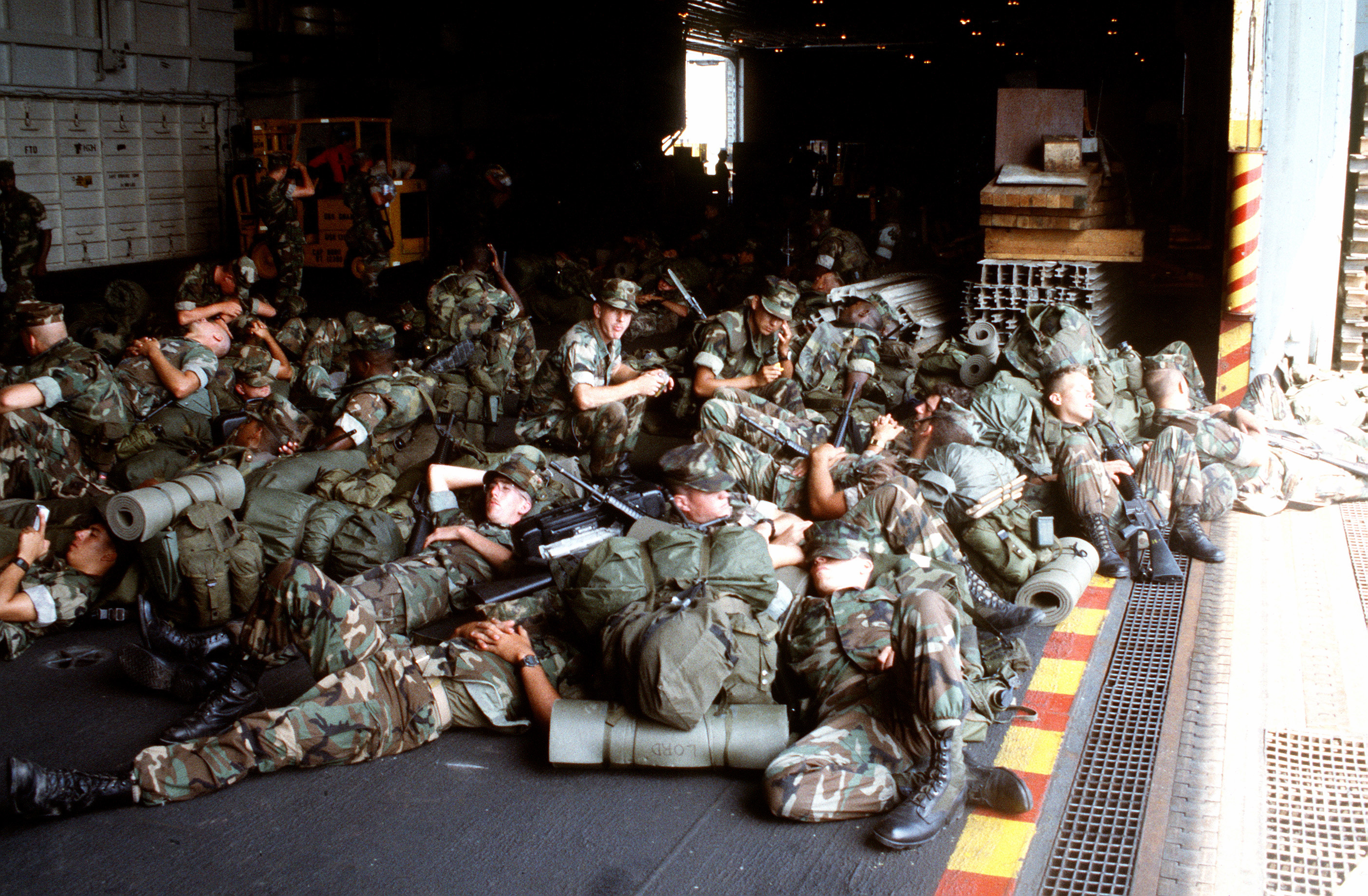 Marines relax aboard the amphibious assault ship USS GUAM (LPH-9) as they wait for the ship to get underway to Saudi Arabia in support of Operation Desert Shield.